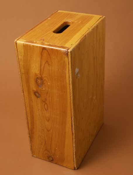 A "full apple" box. Commonly used in the motion picture industry. Photo by Henry Nelson, Wichita Kansas USA Henryn 17:42, 30 July 2007 (UTC)